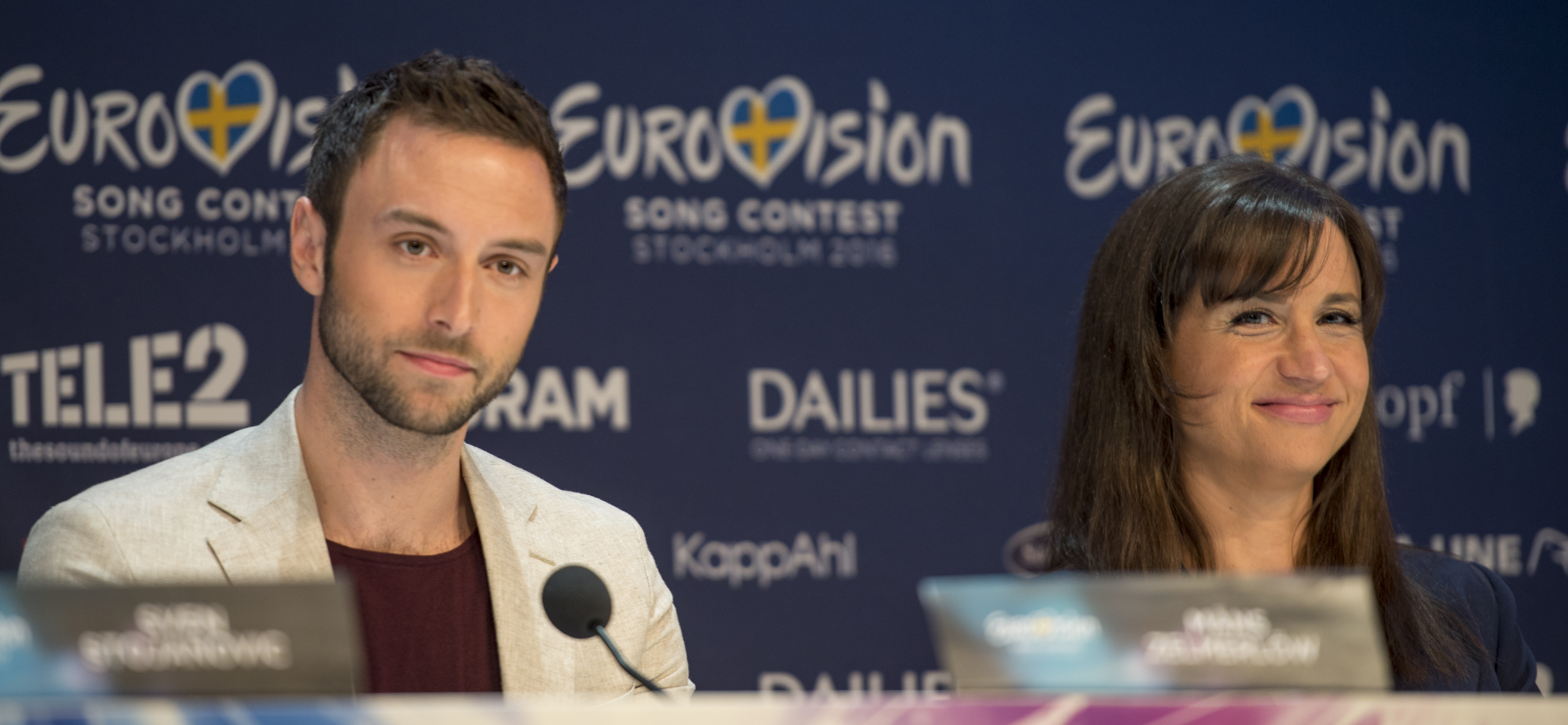 Måns Zelmerlöw & Petra Mede at a press conference during the Eurovision Song Contest 2016 Stockholm. (Help translate this text)